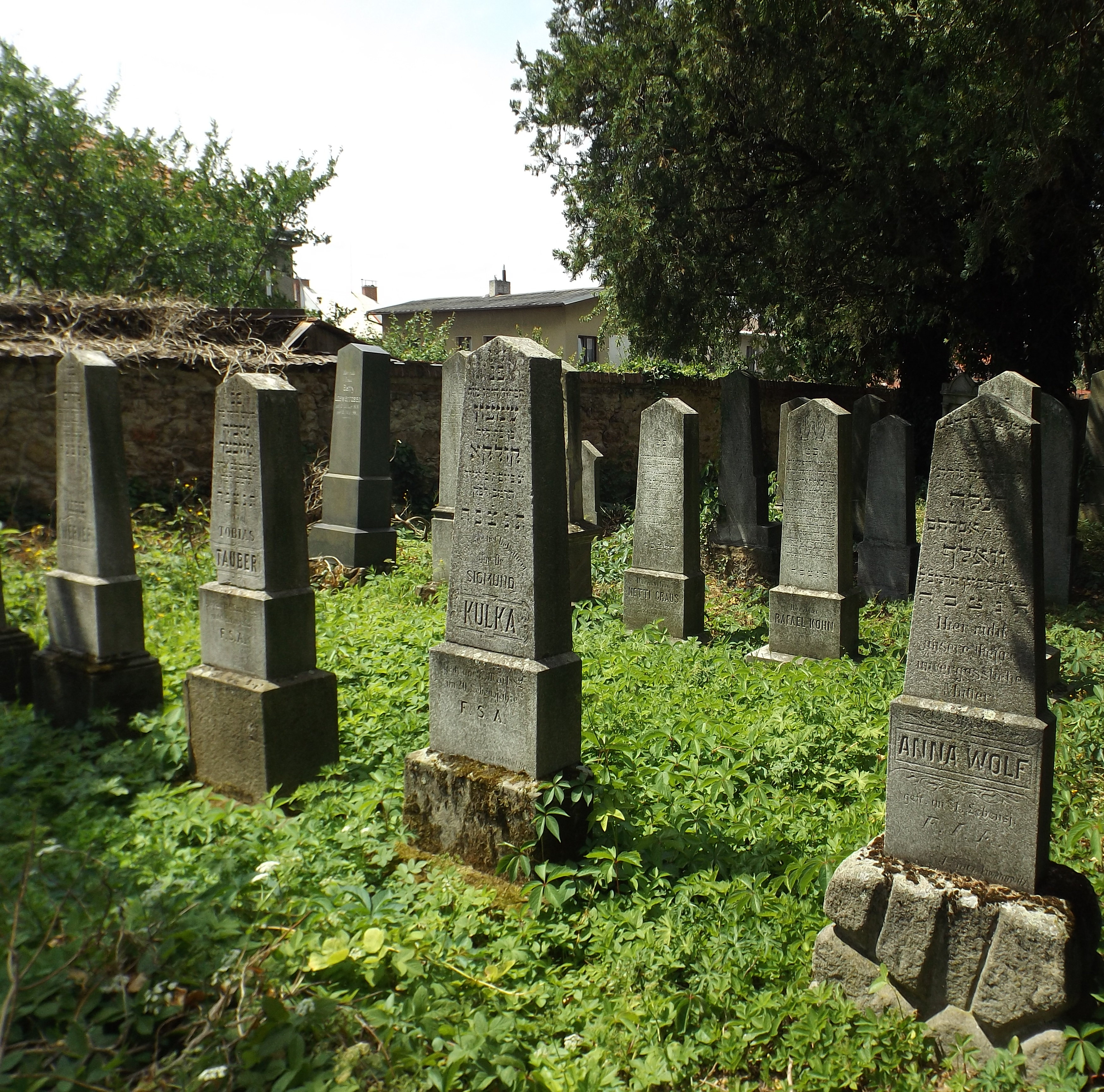 Jewish cemetery in Přerov